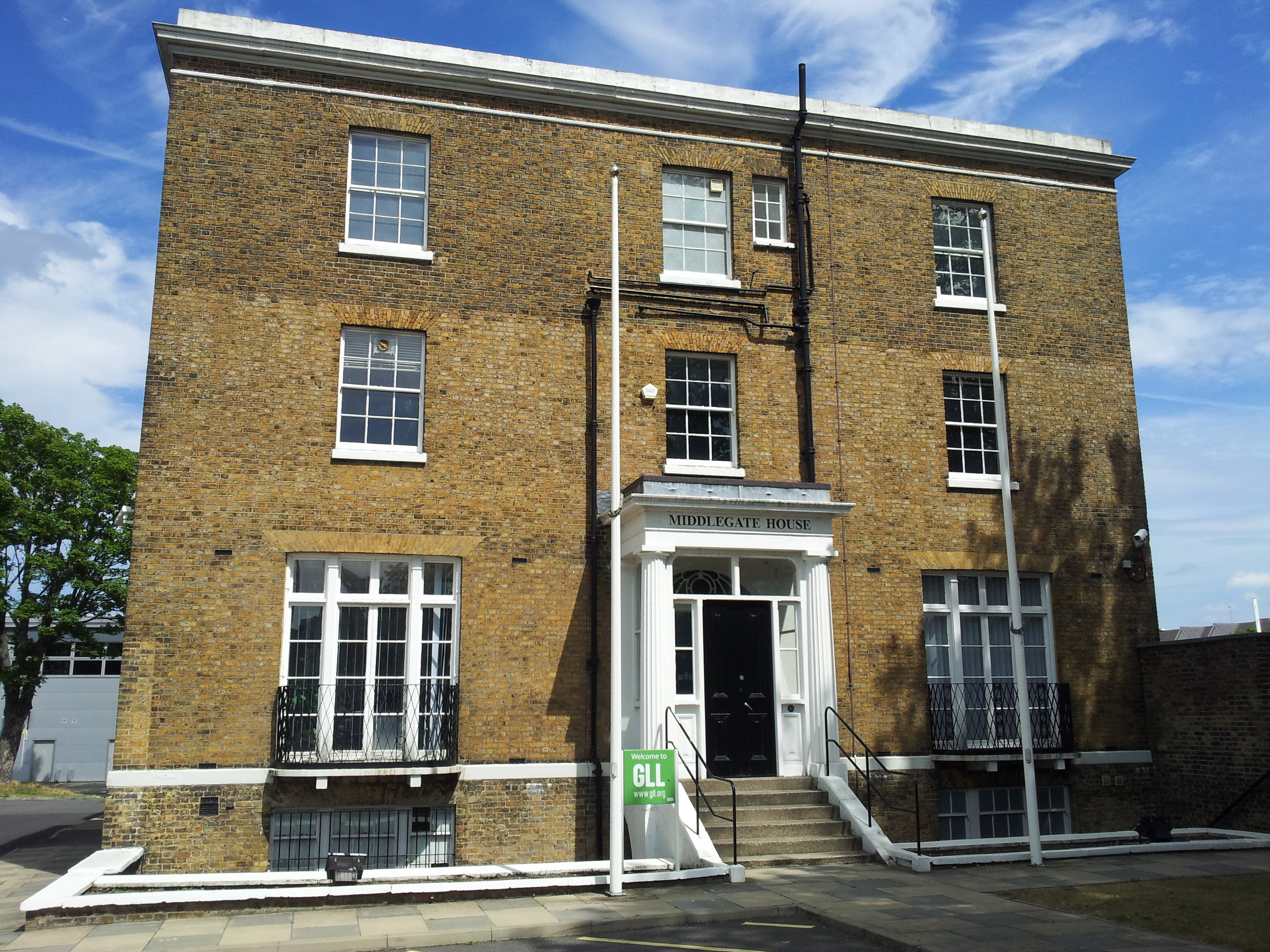 View from the south of Middlegate House near Middlegate, formerly one of the main entrances to the Royal Arsenal site in Woolwich, South East London.